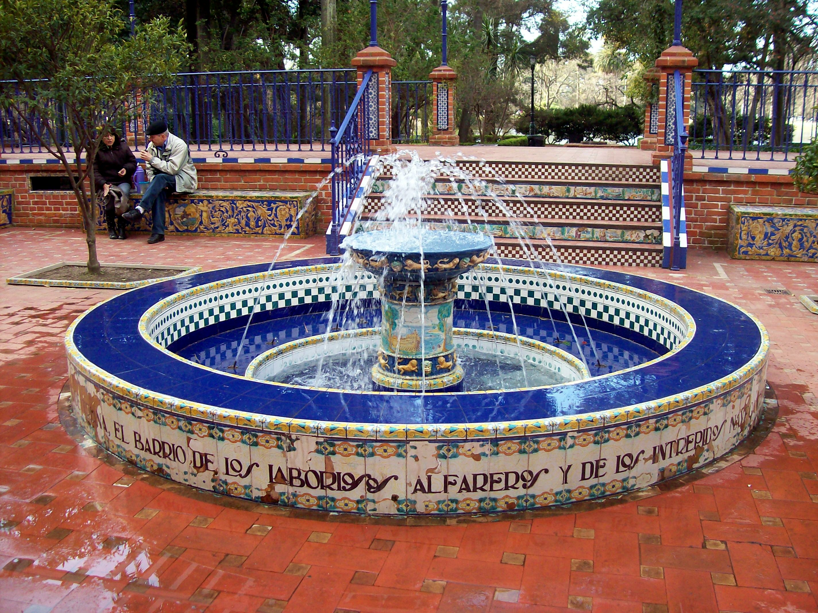 Tile (azuelo) fountain in Paseo Andaluz — Rosedal, Buenos Aires.